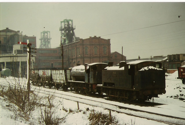 Winter at Blackhall colliery, County Durham, in snow. NCB steam locomotives and coal wagons on a winter's day before the pit was closed.